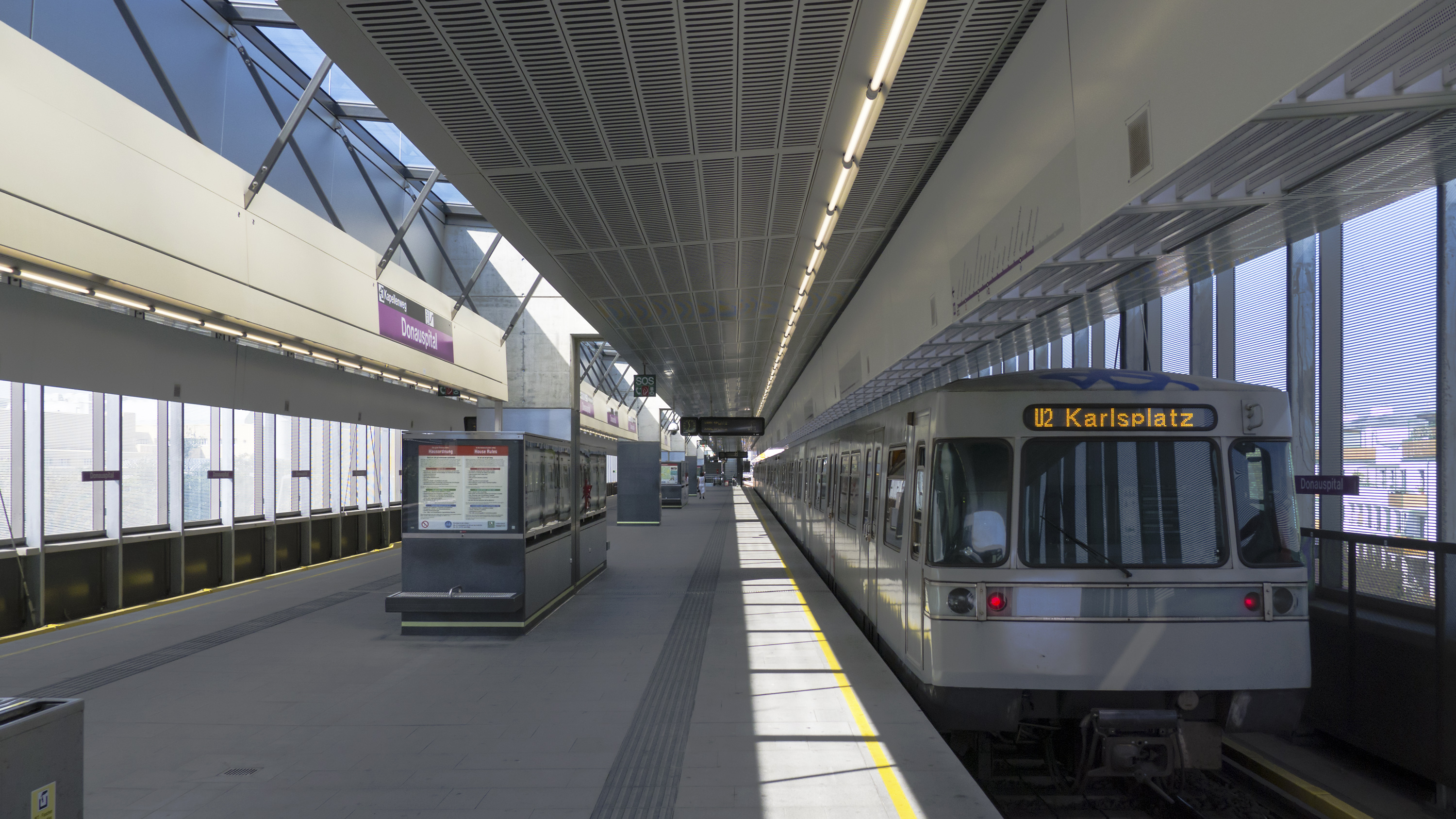 Underground station Donauspital of Line U2 in Vienna 22